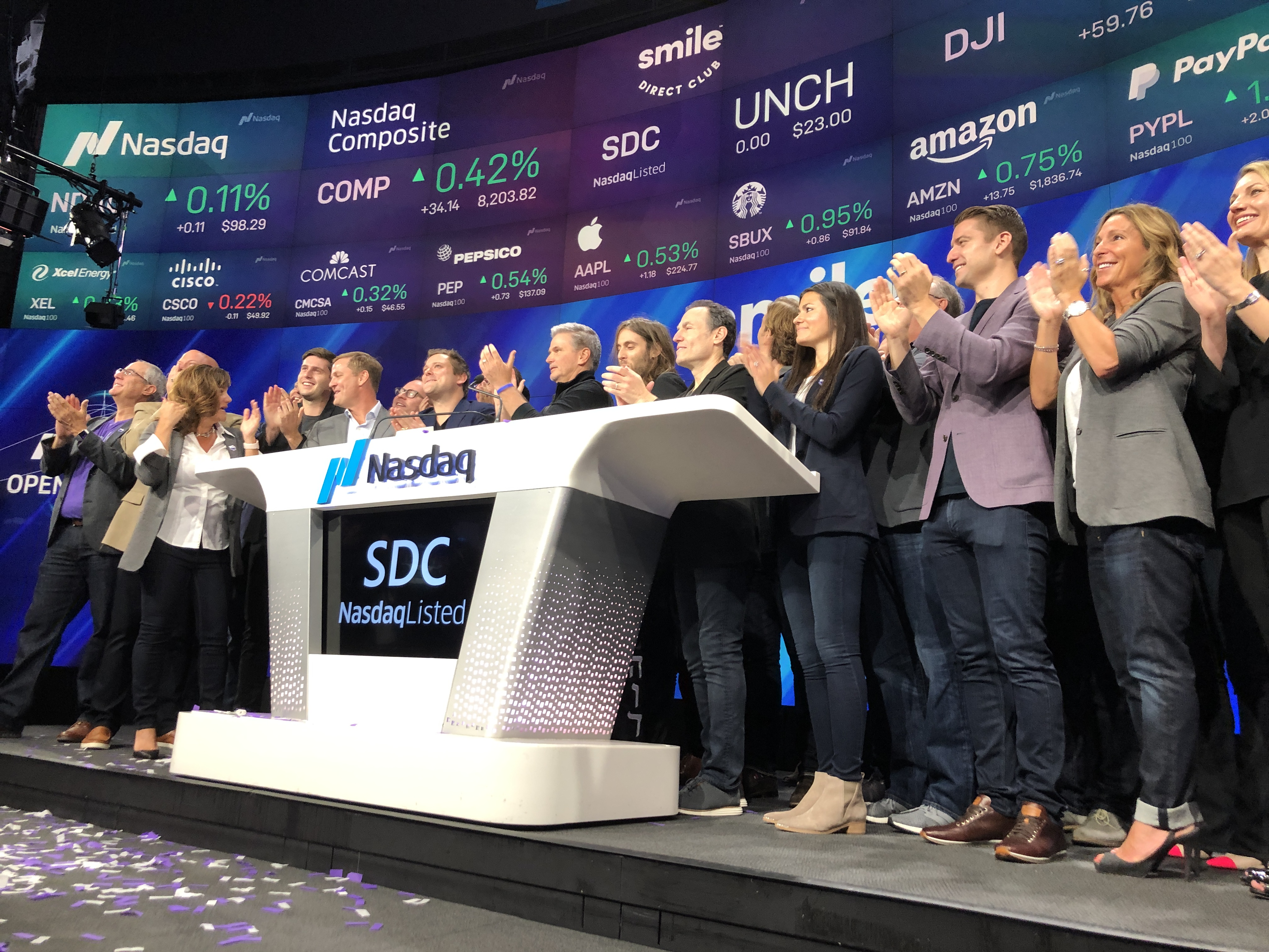 Members of the SmileDirectClub team celebrate ringing the bell at Nasdaq on their IPO day.